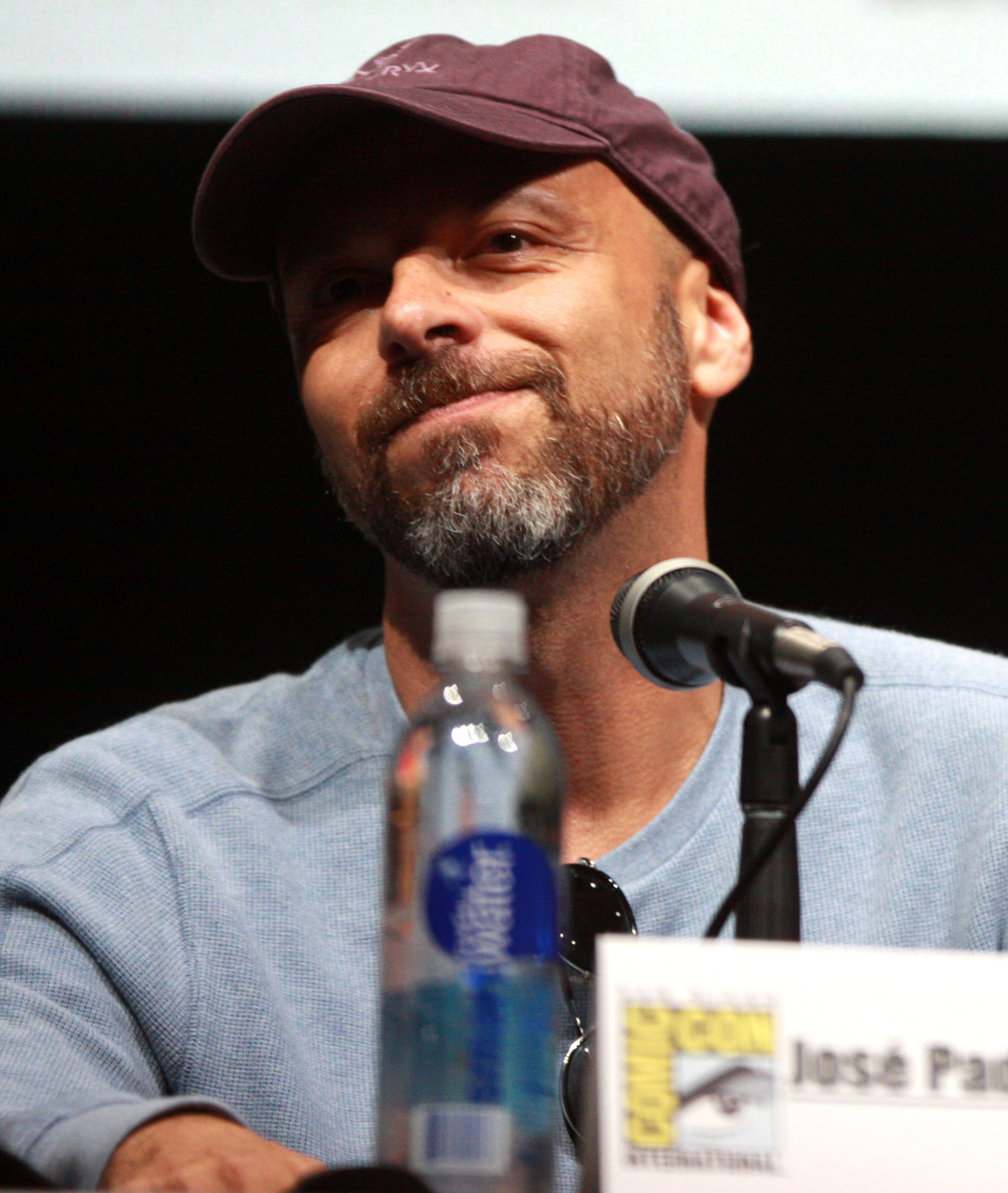 Jose Padilha at the 2013 San Diego Comic Con International in San Diego, California.